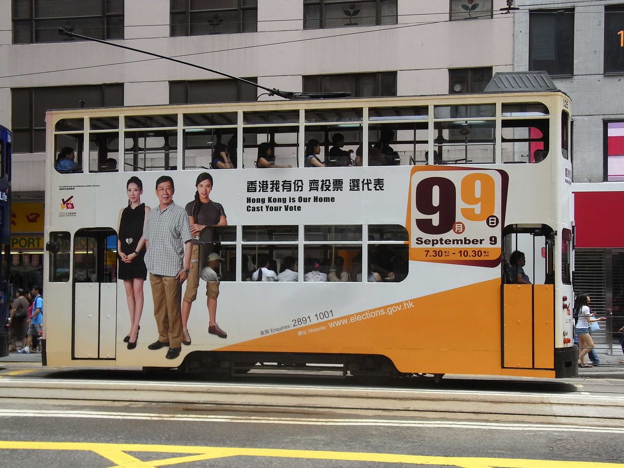 胡楓, Bowie WU Fung figure with 2012年香港立法會選舉, Hong Kong Tram, Johnston Road, Wan Chai, Hong Kong & 2012 Hong Kong Legislative Election ads.